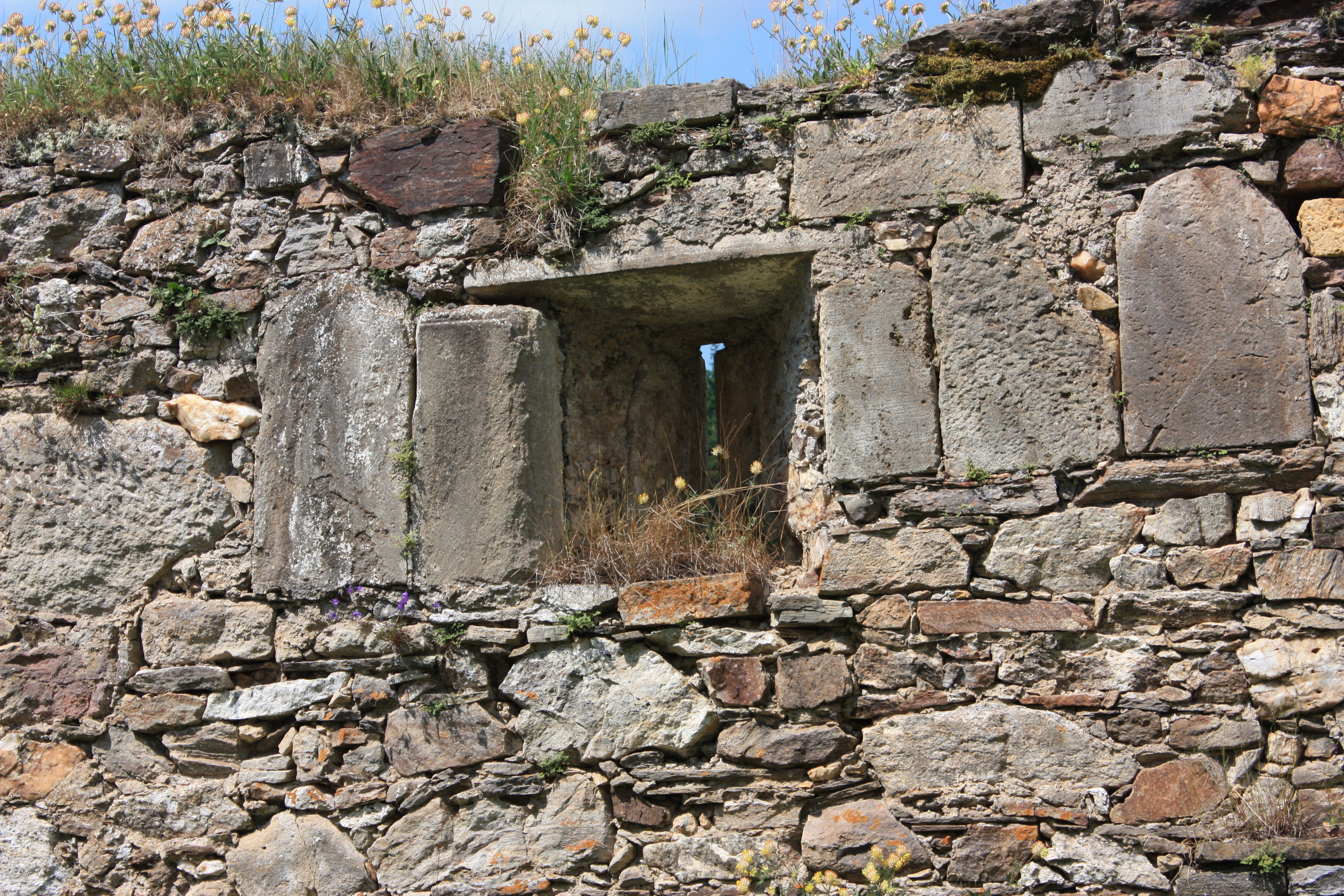 Fortification of the Parish church Saint Michael in the community of Griffen